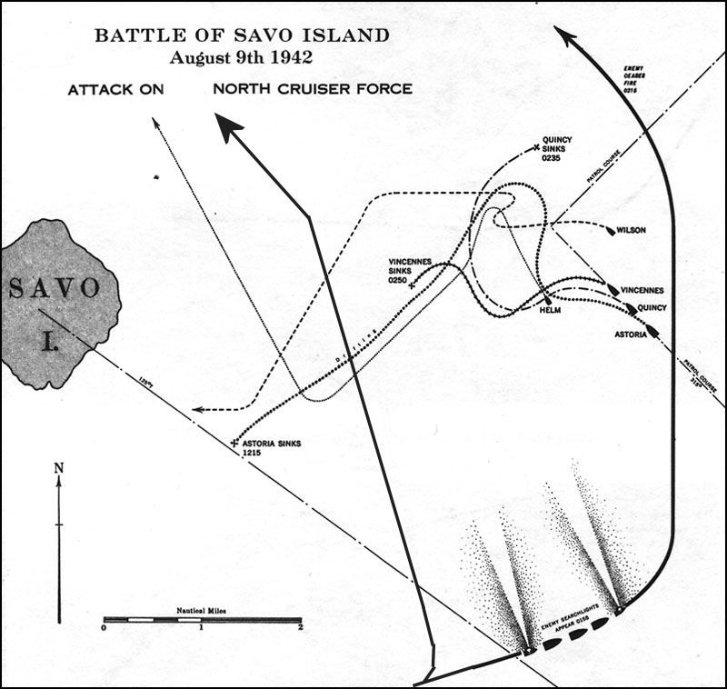 U.S. Navy map from 1943 showing battle between Japanese ships and Allied northern force ships near Savo Island on August 9, 1942. Modified by cla68 on August 31, 2006, to show that Japanese force split into two groups.